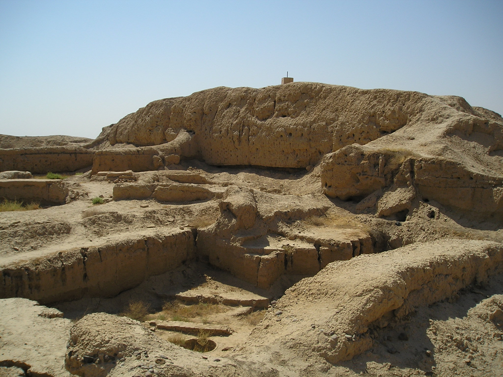 Mari, Syria - a ziggurat near the palace